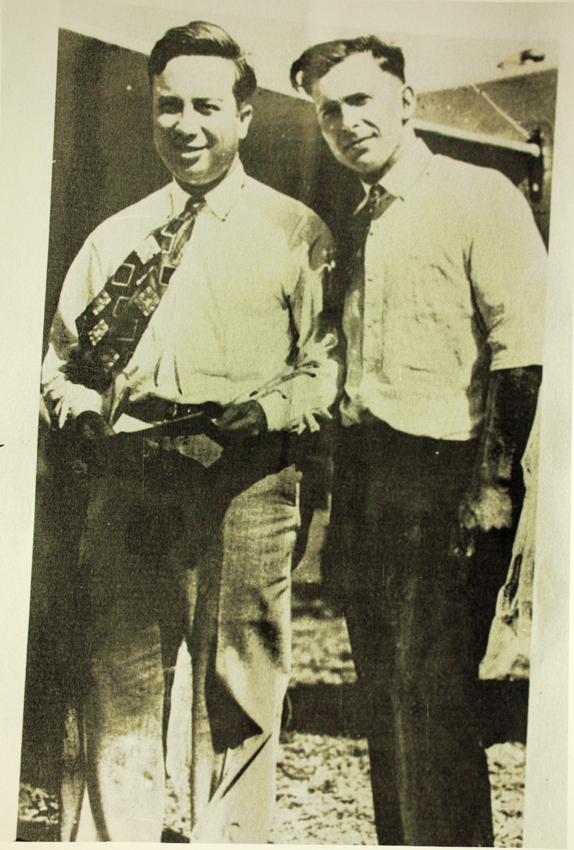 Catalog #: 10_0014626 Title: Dole Air Race Additional Information: Swallow ""Dallas Spirit"" NX 941 Tags: Dole Air Race, Swallow ""Dallas Spirit"" NX 941 Repository: San Diego Air and Space Museum Archive